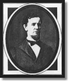 Nathan Smith Boynton, 1837-1911